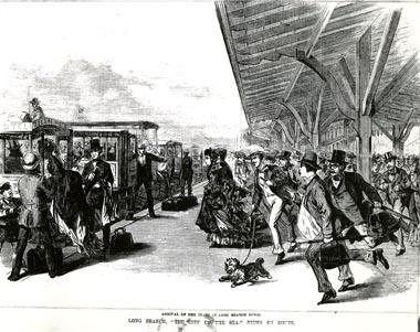 The City by the Sea, drawing from Frank Leslie's Illustrated Newspaper, July 26, 1873, copy photo Location: Long Branch County: Monmouth Format: 5x7 BW Photographer: Unknown Notes: Note: "Arrival of the Train at Long Branch Depot. Long Branch, 'The City By the Sea,' Views en route."